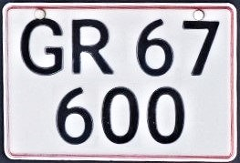 Greenland license plate square format